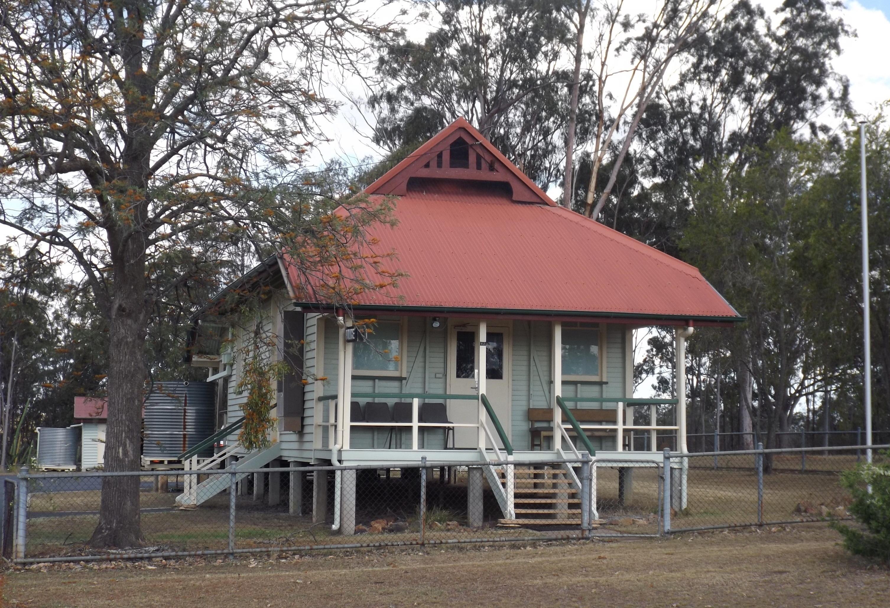 Photo of Goombungee police station at Goombungee in the Toowoomba Region local government area on the Darling Downs in Queensland, Australia.